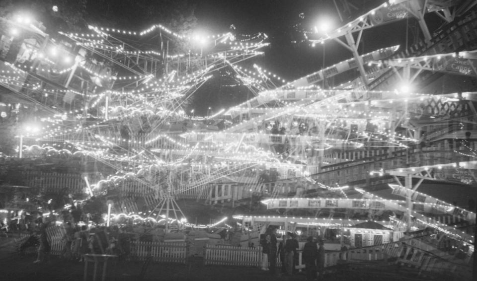 We see a whole night rides Belmont Park plan in Cartierville in Montreal.